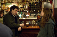 Stephen Rea as Martin and Lotte Verbeek as Anne in the film Nothing Personal.